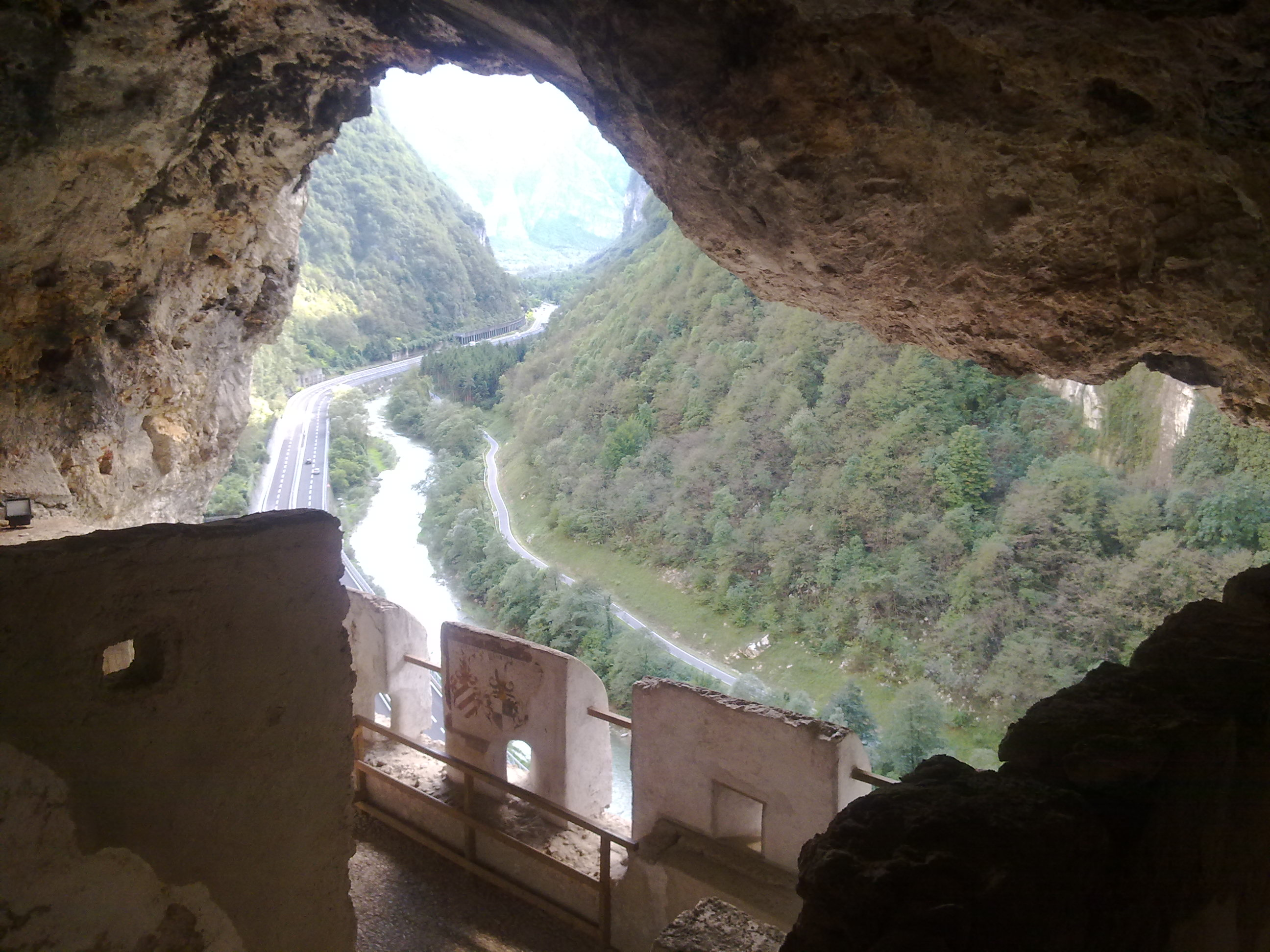 Brenta river seen from "Covolo di Butistone" castle, Cismon del Grappa, Provincia di Vicenza, Italy.